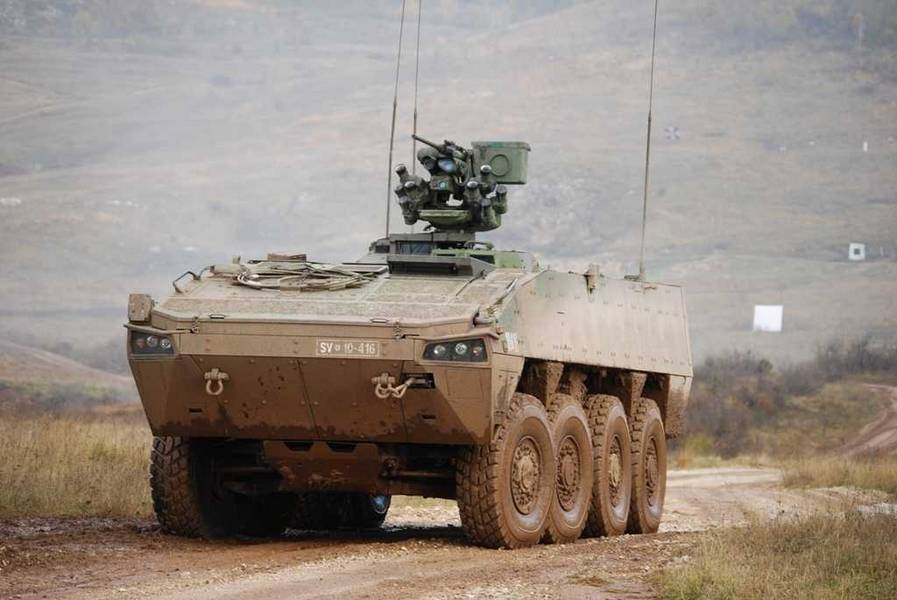 Svarun 8x8 (Patria AMV) at Poček, slovenian military training ground